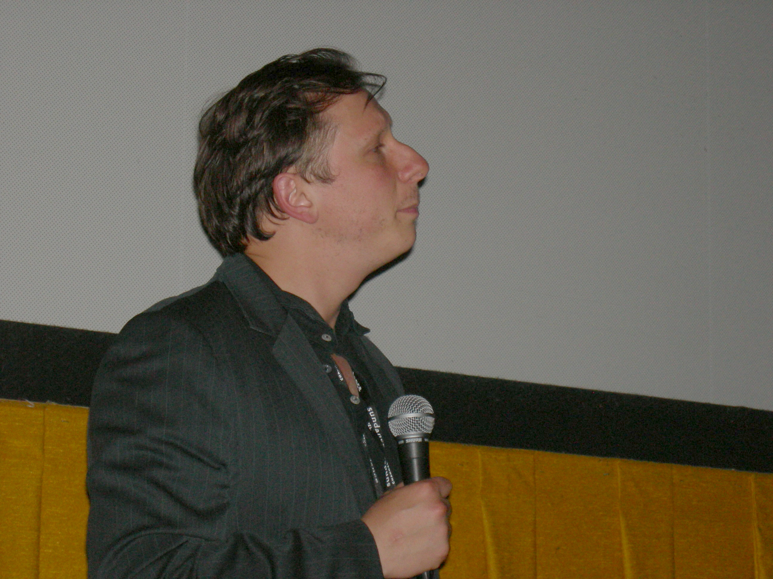 Quebecois Canadian actor Paul Ahmarani, photographed at the Neptune Theater during the 2007 Seattle International Film Festival, after a showing of the film Congorama, in which he co-stars.